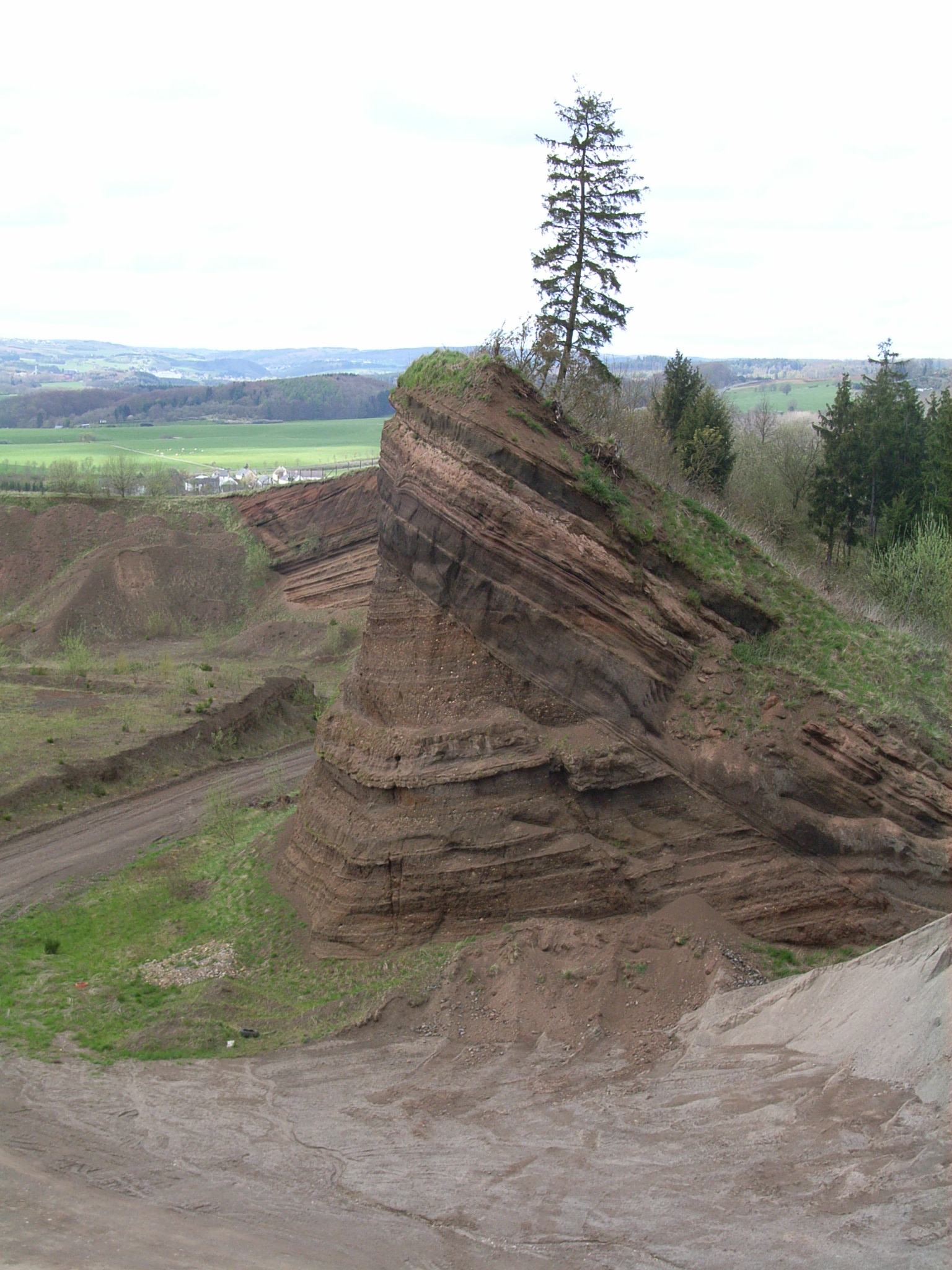 Rockeskyller Kopf, Germany. Quarry with volcanic beddings.